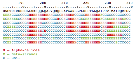 A prediction of secondary structure based on the results from multiple programs.